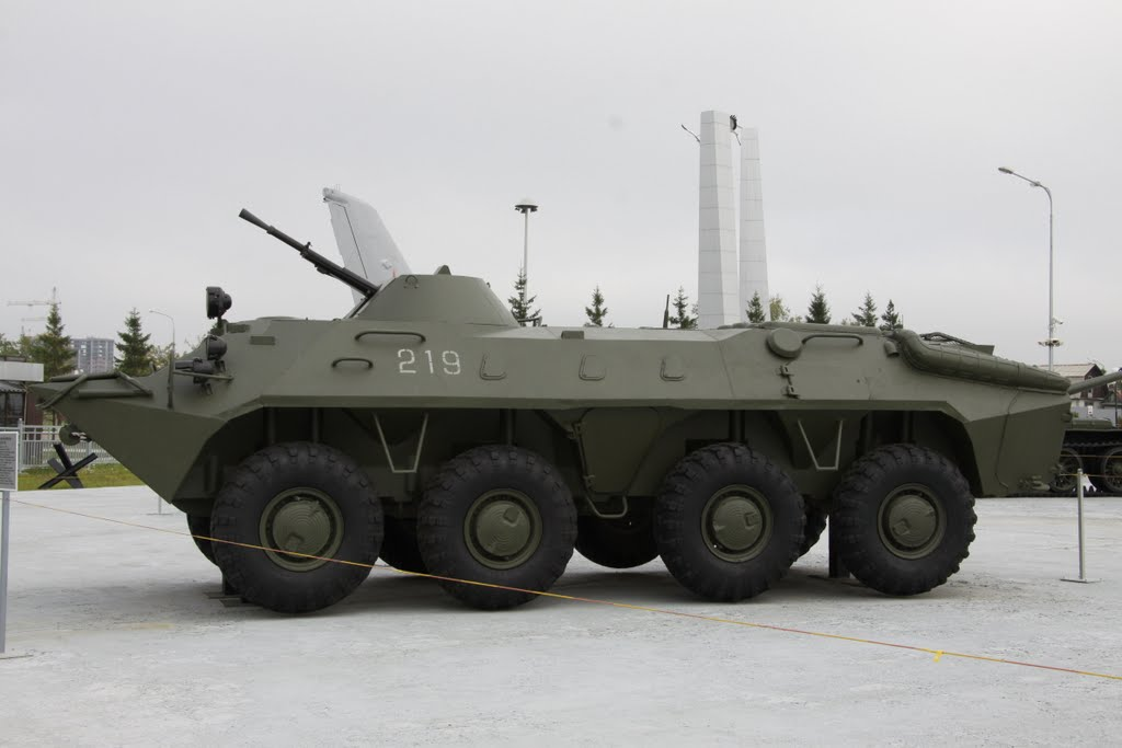 Verkhnyaya Pyshma Tank Museum 2011